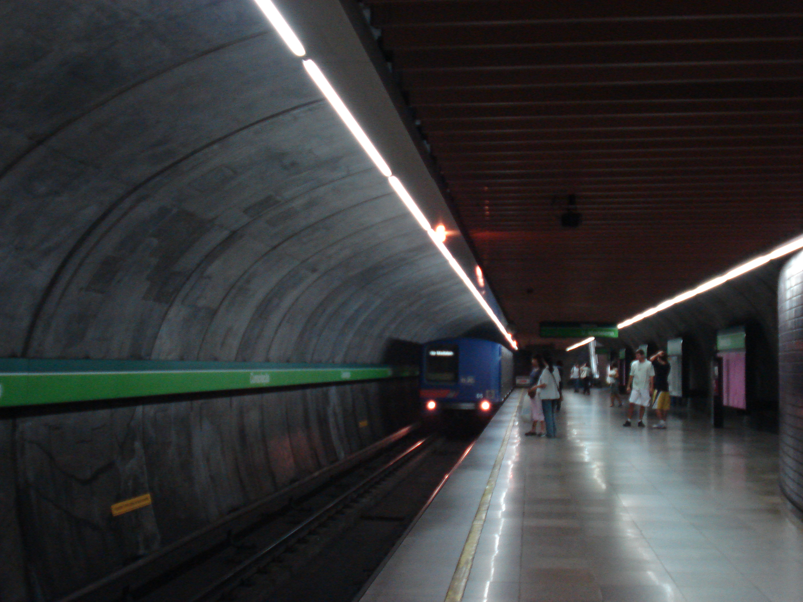 Consolação station of São Paulo Metro